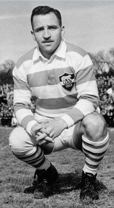 Argentine rugby union player Angel Guastella, during his tenure on the national team.